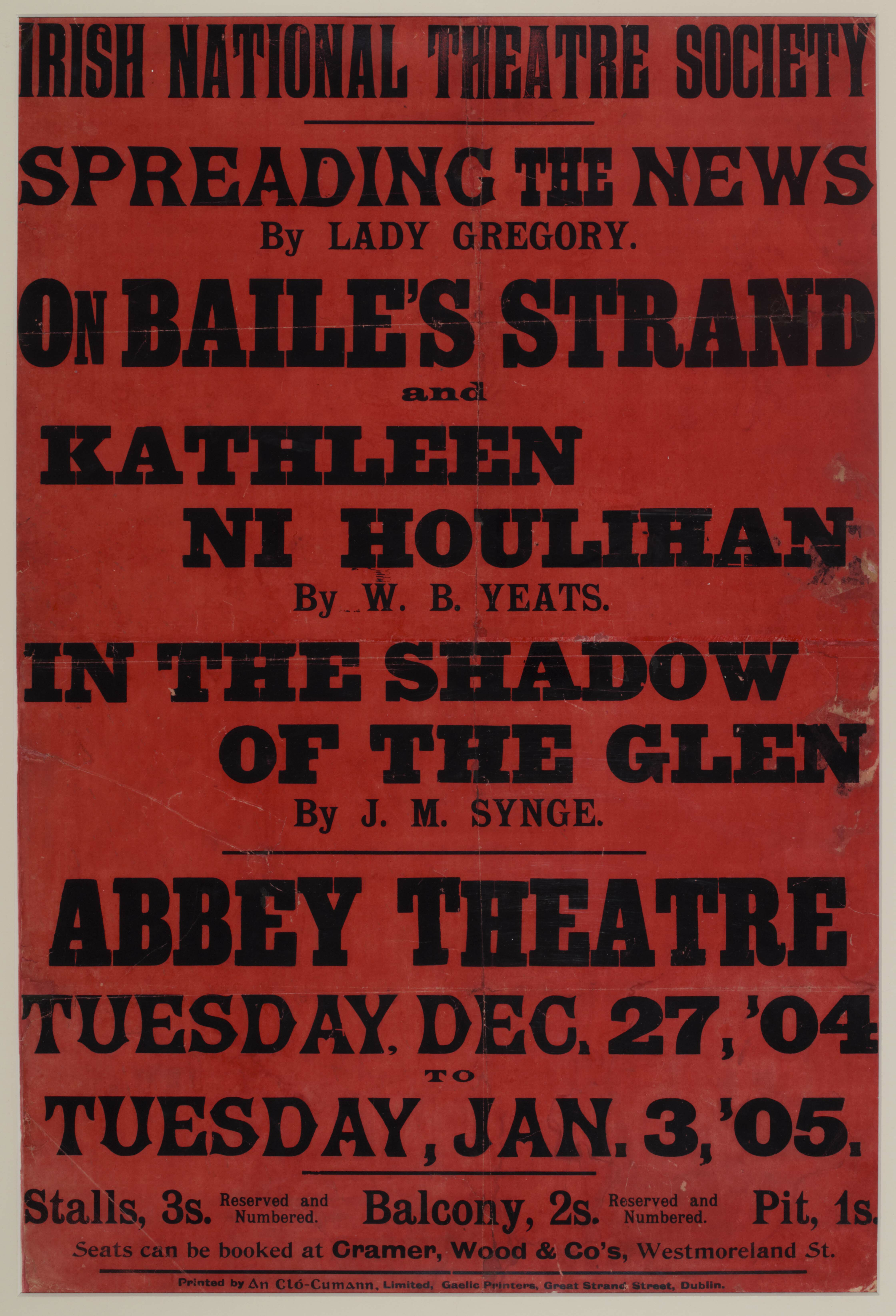 The Poster for the Opening Nights of the Abbey Theatre, advertising shows in December 1904 and January 1905.